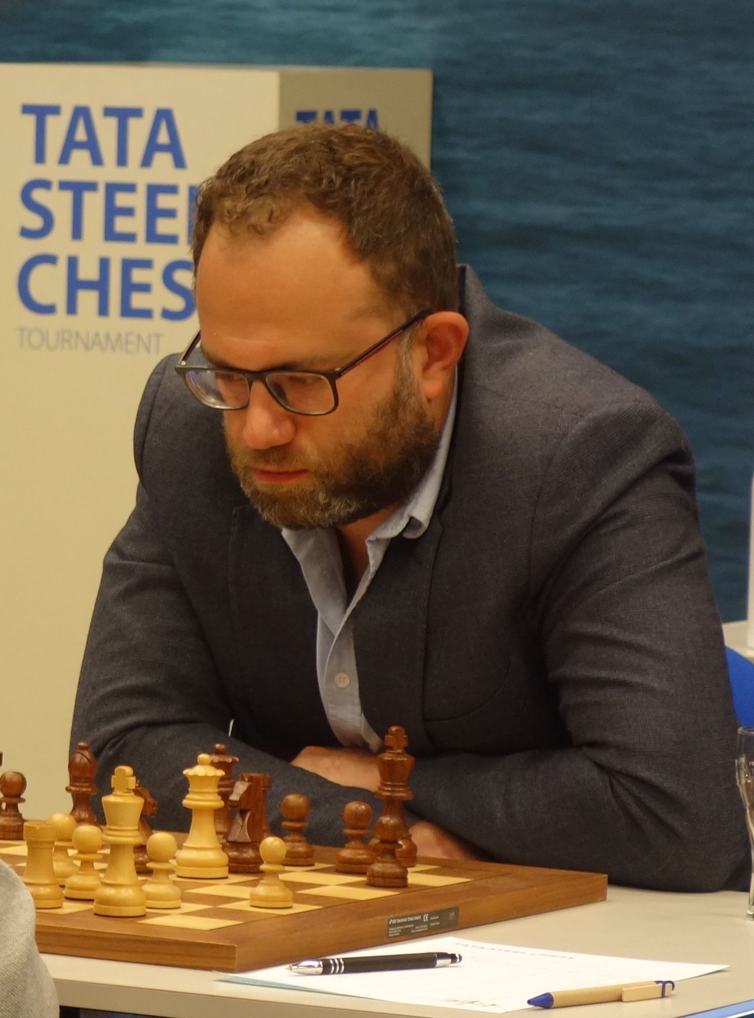 Pavel Eljanov at Tata Steel chess tournament 2020